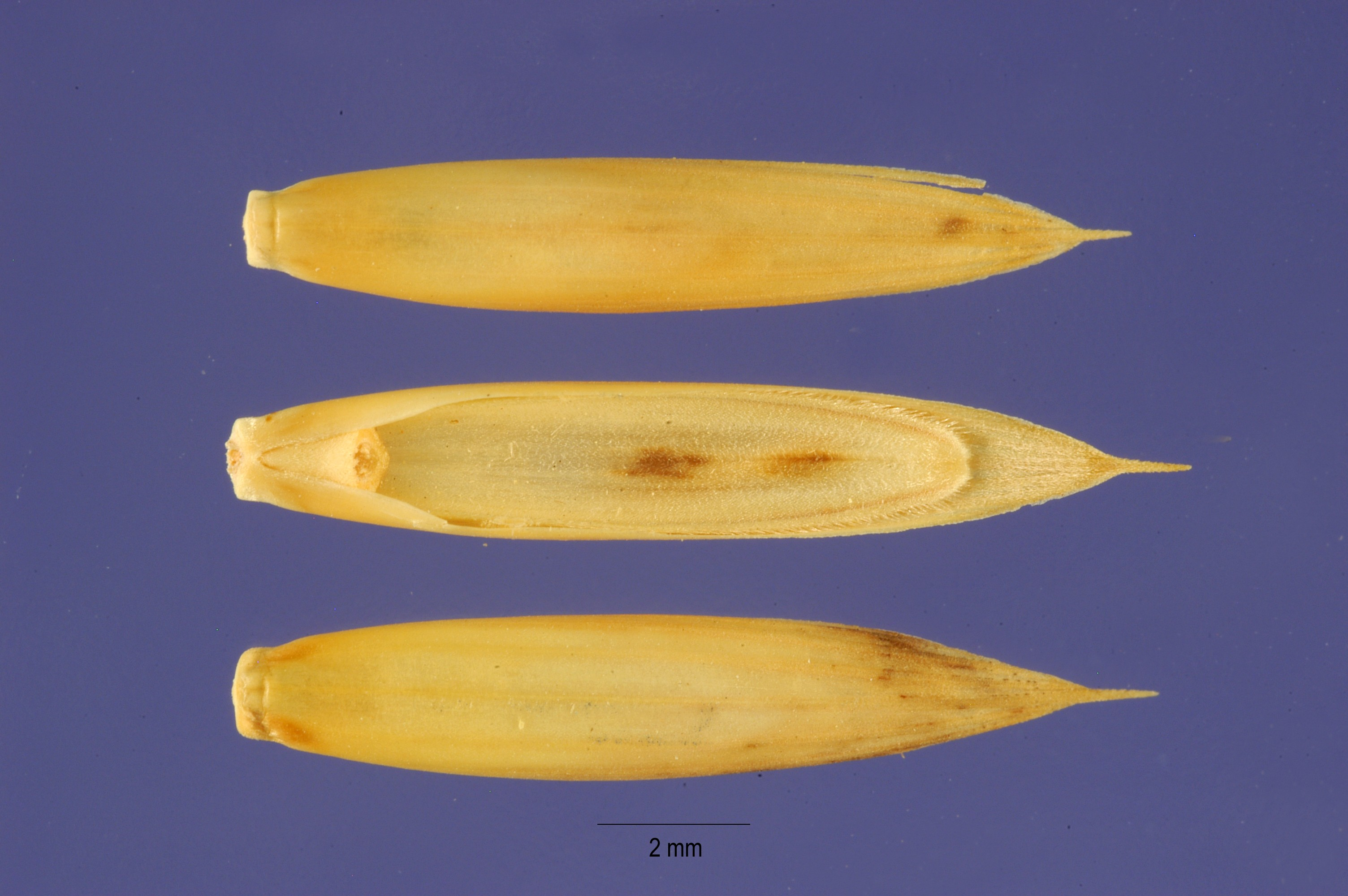 Brachypodium phoenicoides from Jose Hernandez. Provided by ARS Systematic Botany and Mycology Laboratory. France.